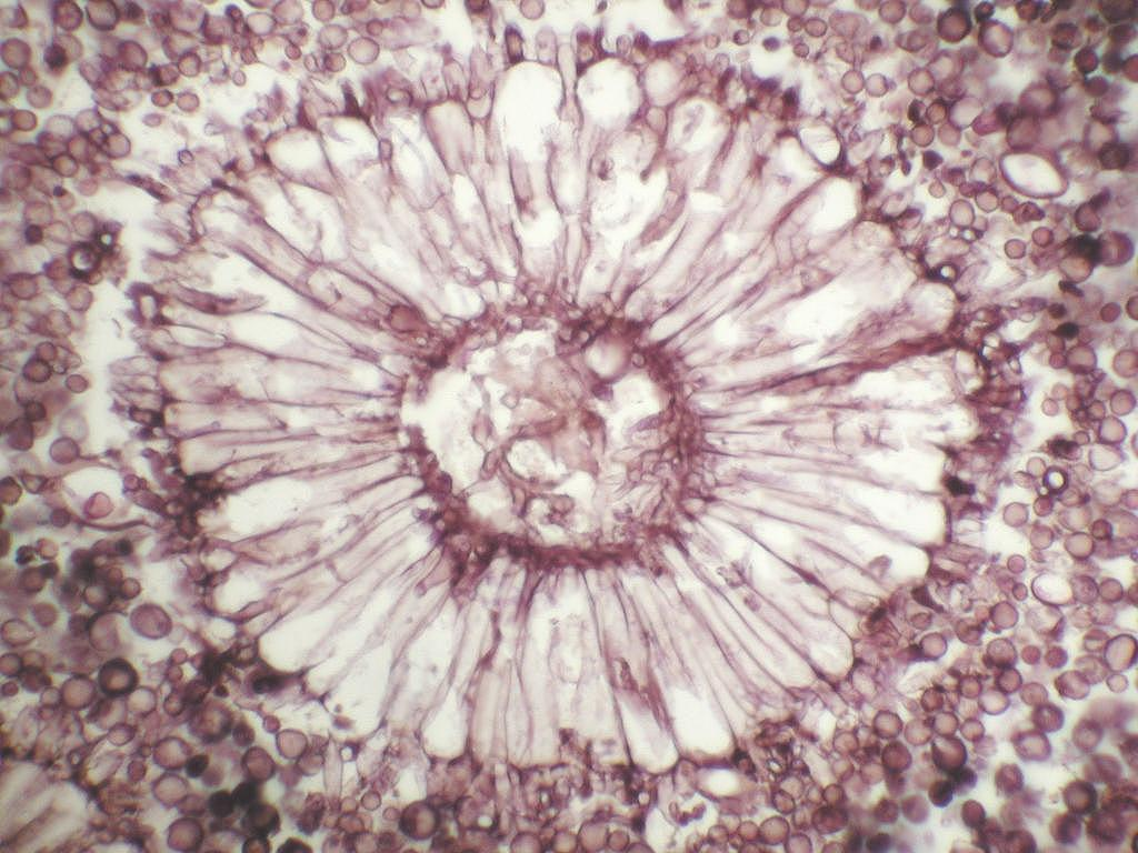 Condial heads are usually seen only where the fungi are in contact with air such as in Aspergillomas and in tracheobronchial infection.The structure of this conidial head is seen in exquisite detail. The central columella is surrounded by sterigmata and numerous round conidia are present at the periphery. H&E stain. Contributed by Nadeem Zafar, M.D.